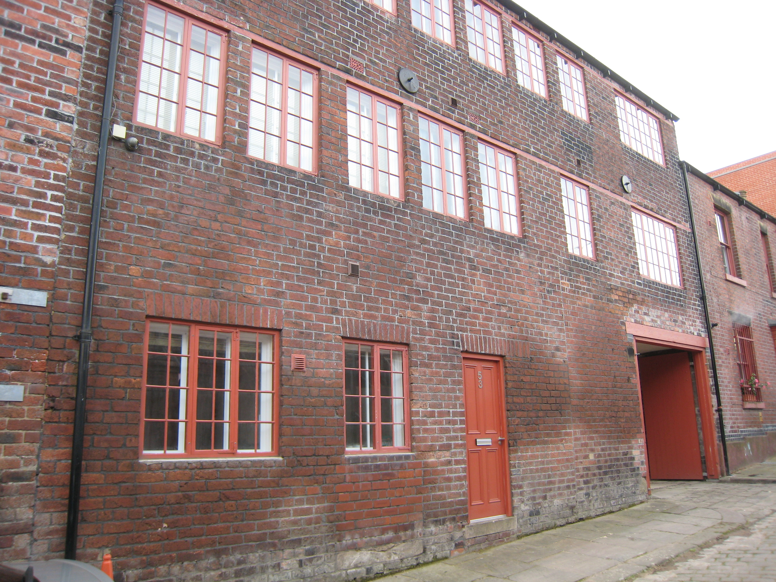 35 Well Meadow Street, Netherthorpe, Sheffield S3 7GS. Former industrial complex with furnace for making steel and cutlery works. This is the frontage of the works.